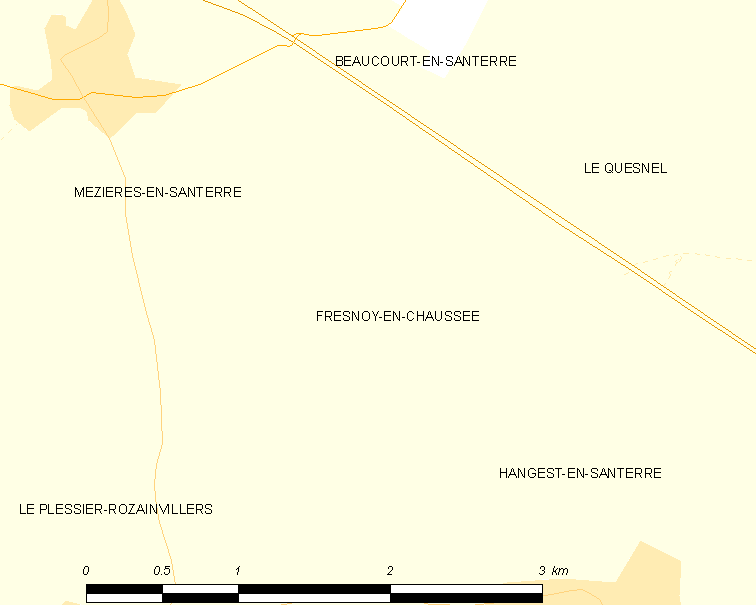 Map of French municipality Fresnoy-en-Chaussée